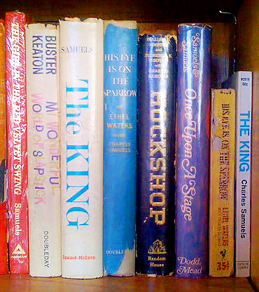 photo of books written by Charles Samuels